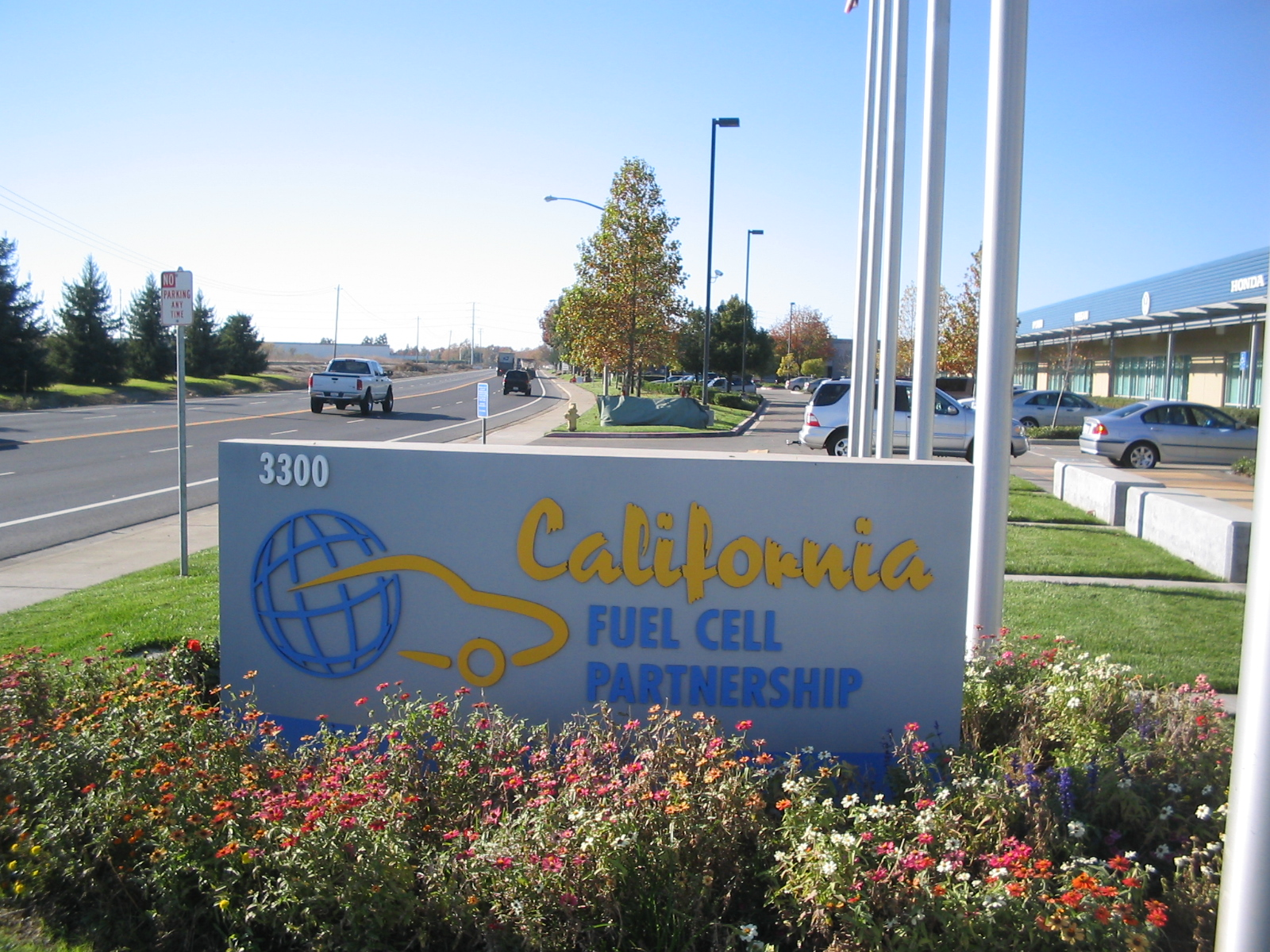 Street Post of California Fuel Cell Partnership